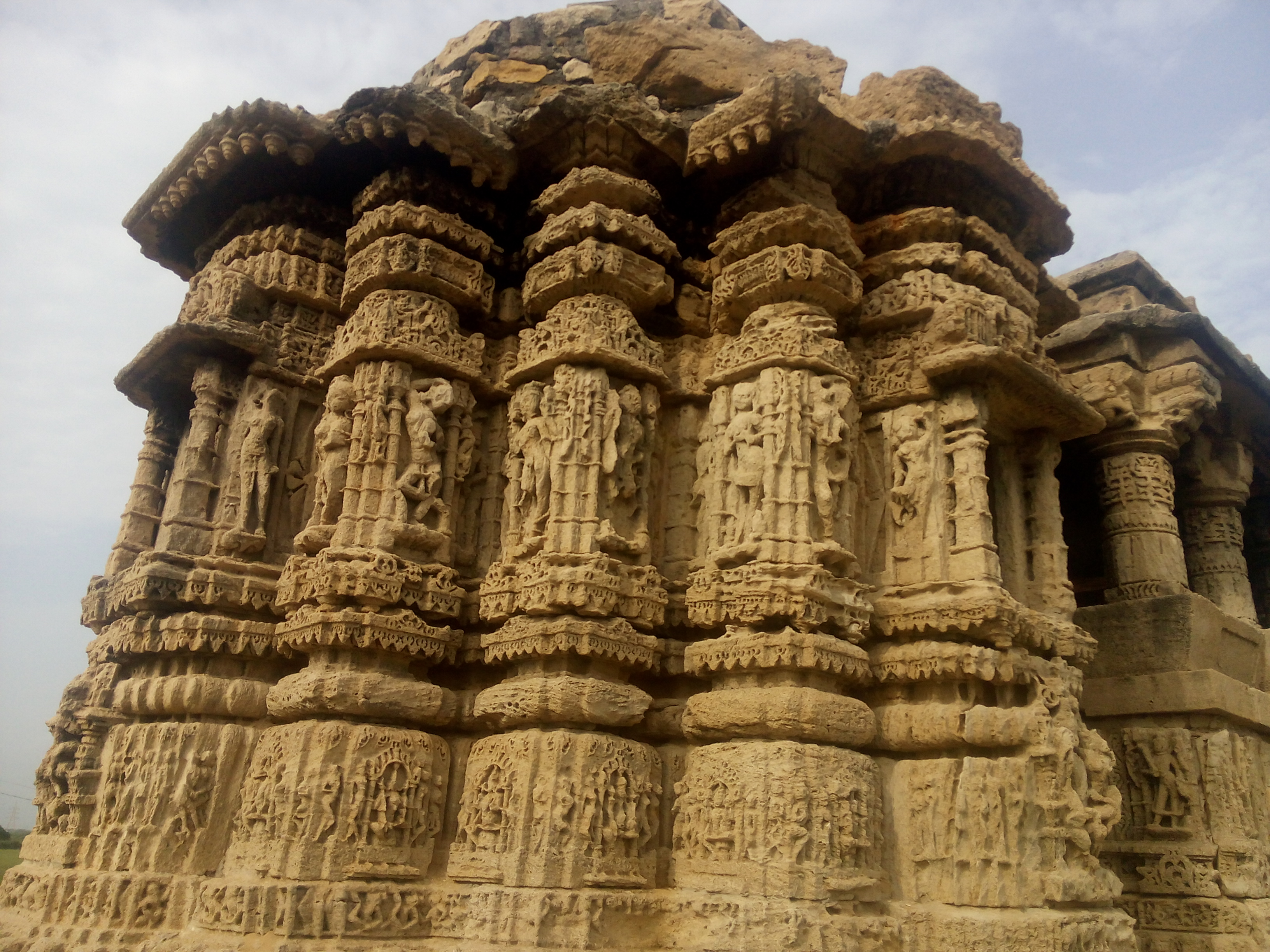 Temple of Rama Laxman, Carvings, on main structure. at south side wall. Structure made by sand stone so vanishing due to humid saline air.